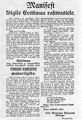 The Manifest of All People of Estonia, 1918